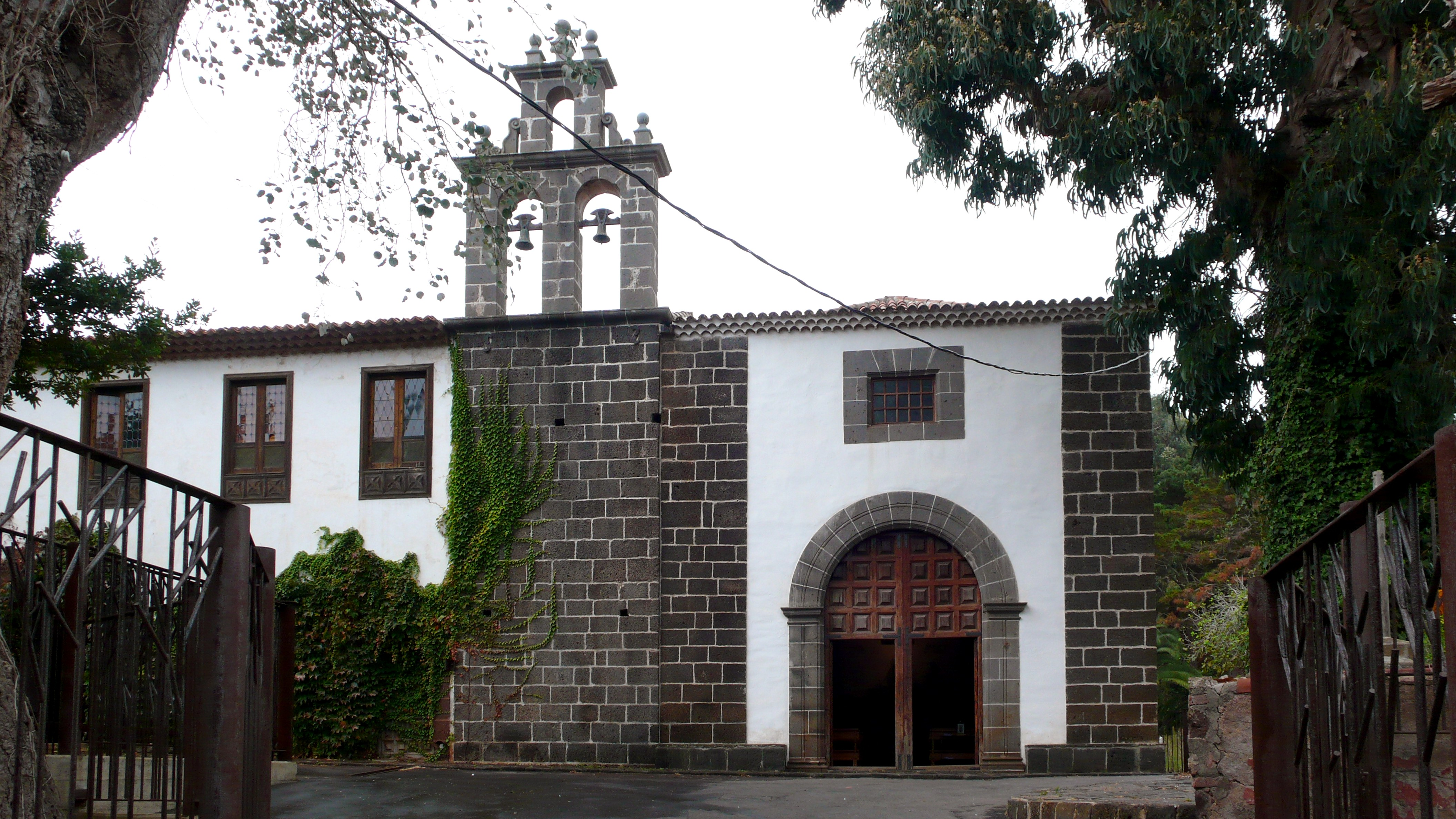 San Diego del Monte church (exterior). La Laguna 2011